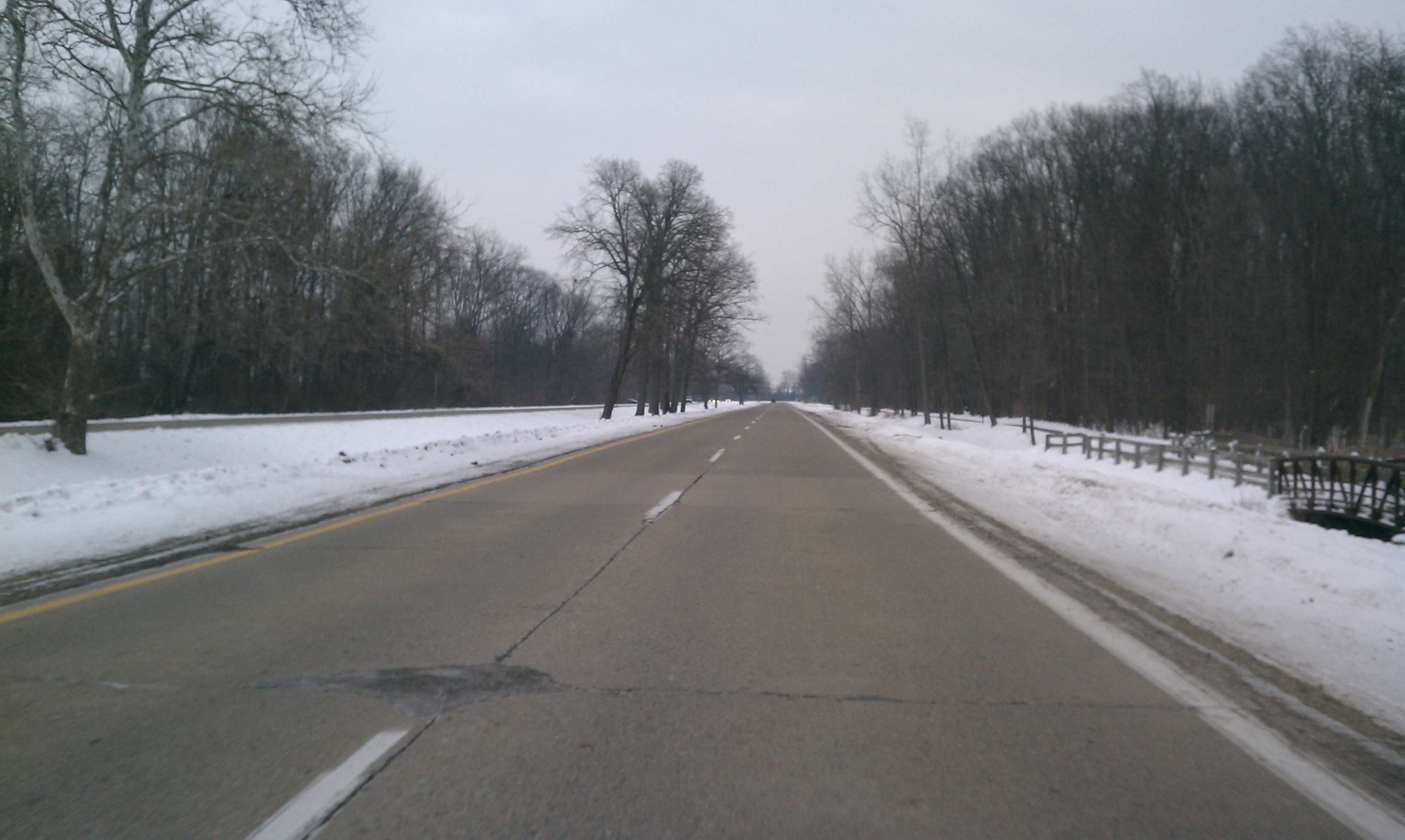 The Metropolitan Parkway heading Eastbound in Harrison Township, Michigan